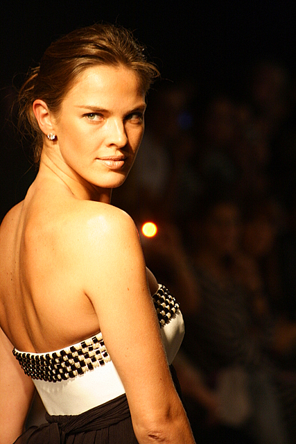 Leticia Birkheuer no Crystal Fashion 2007